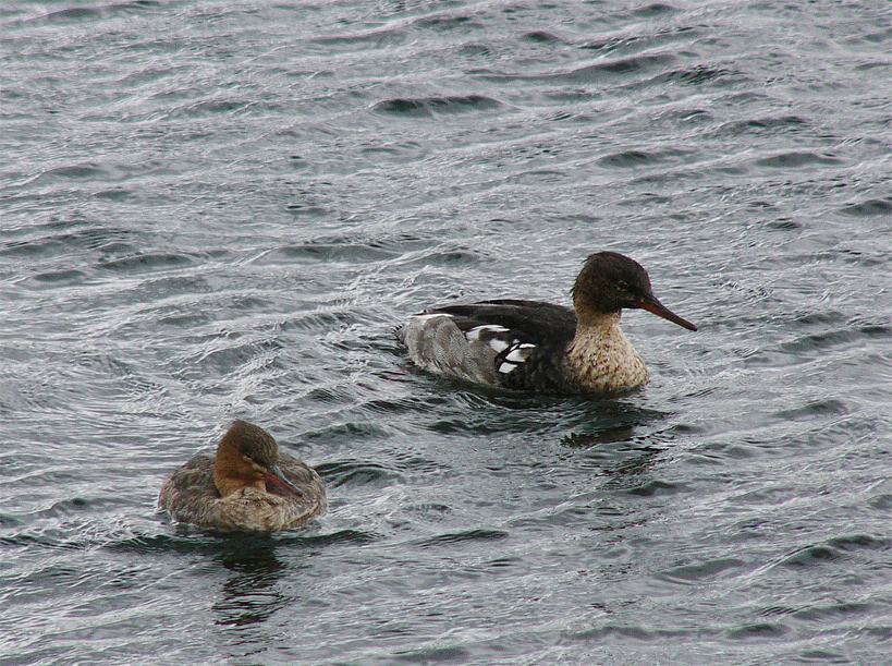 Red-breasted Merganser